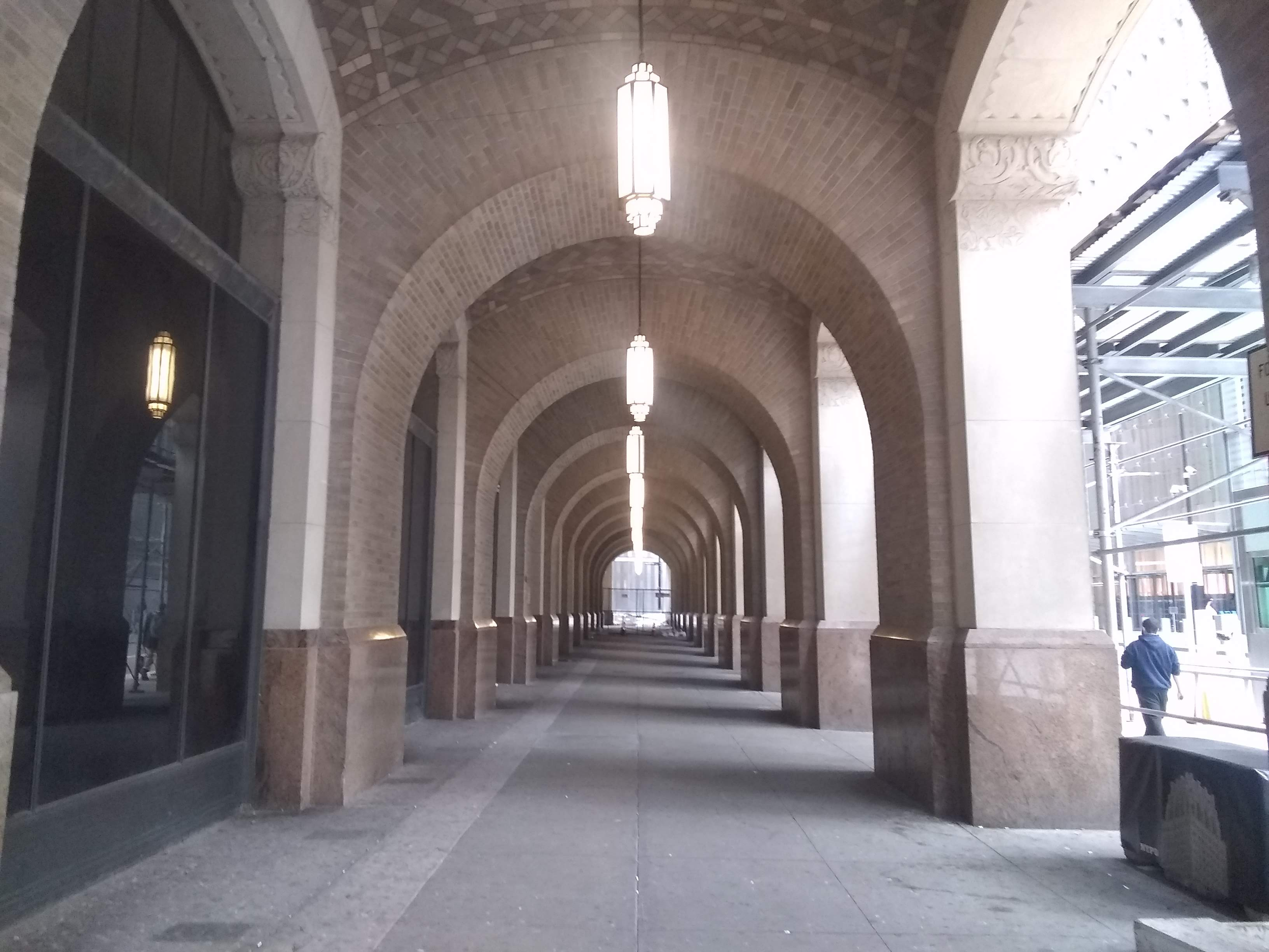 The Verizon Building in Manhattan, New York, in March 2020